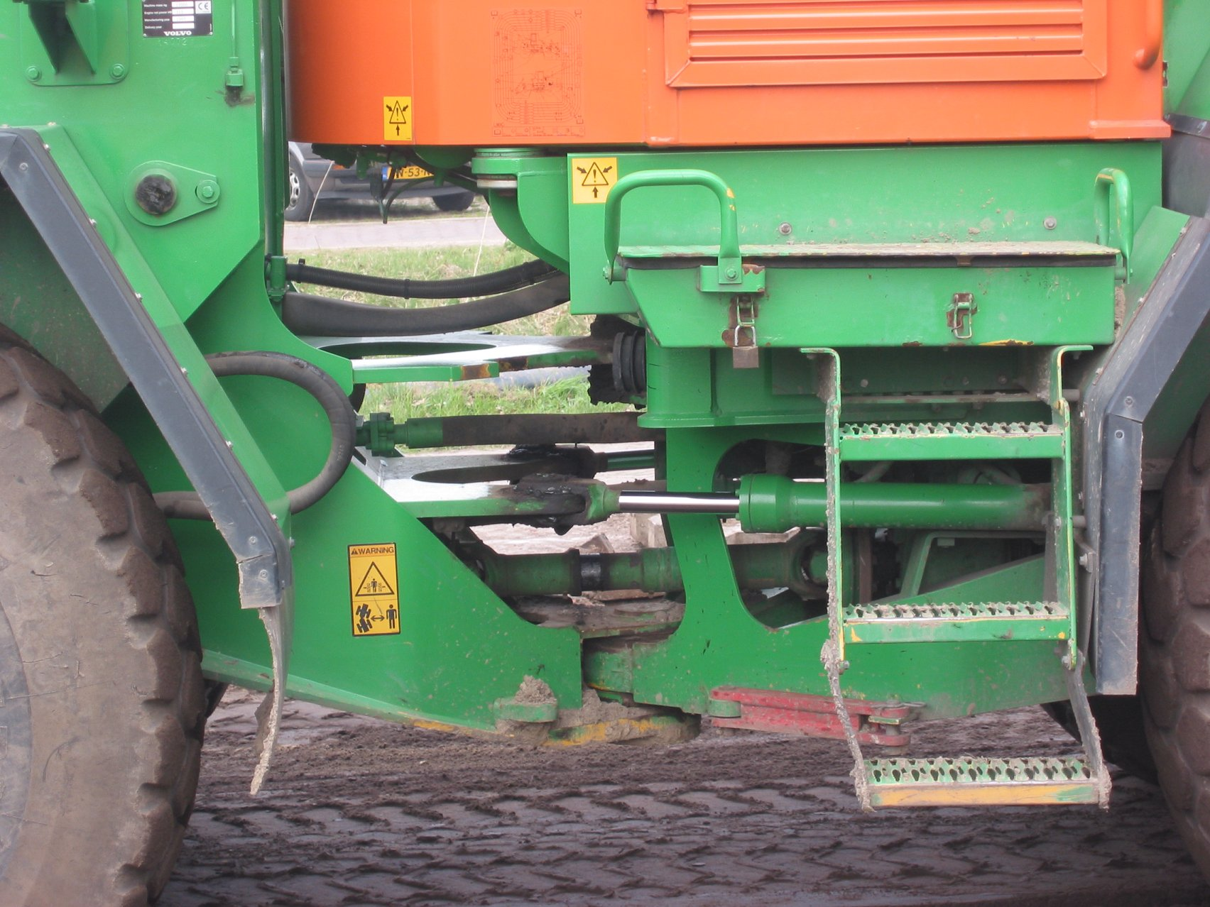 Loader with pivot steering